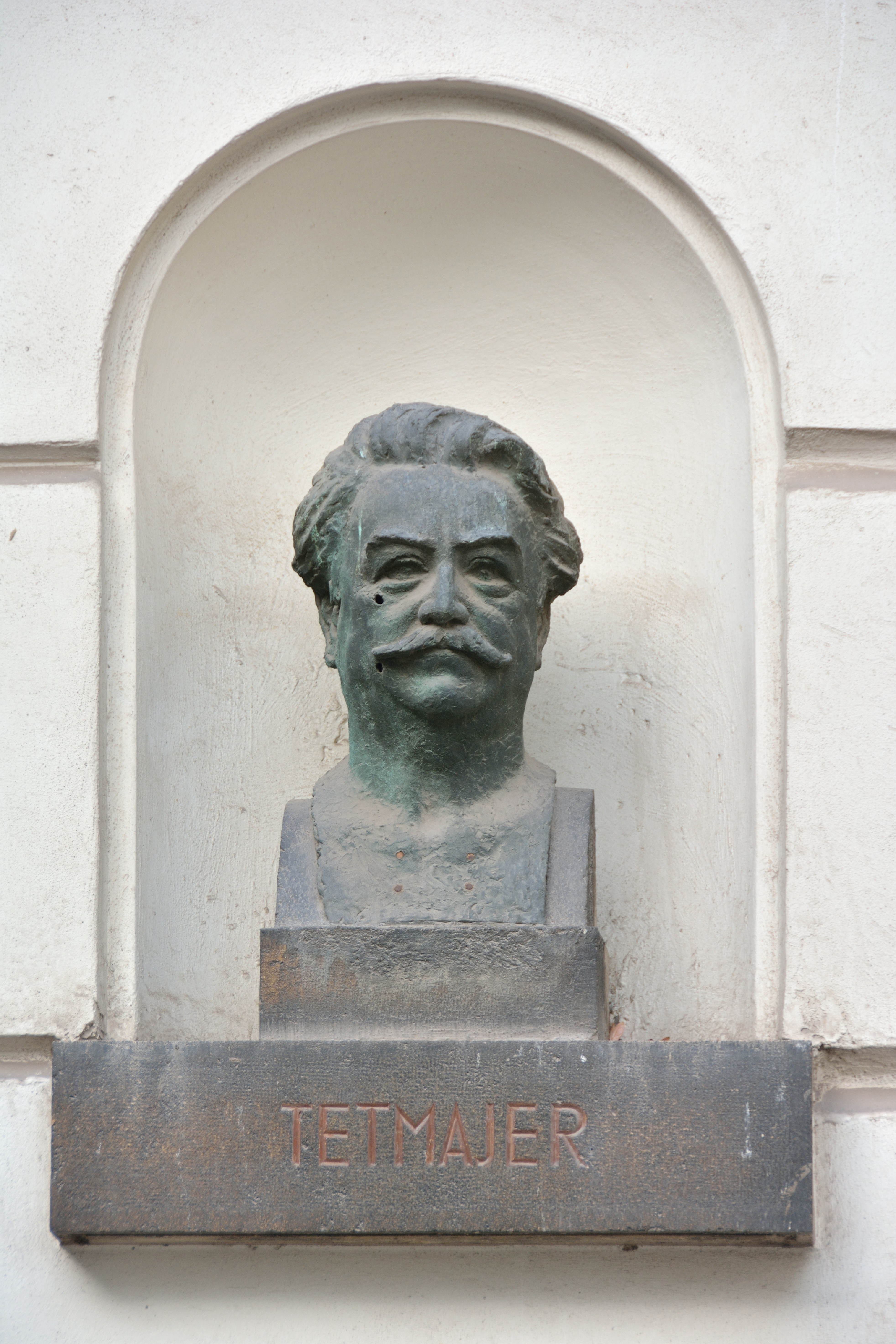 Bust in honor of Ludwig von Tetmajer in the courtyard of the Vienna University of Technology